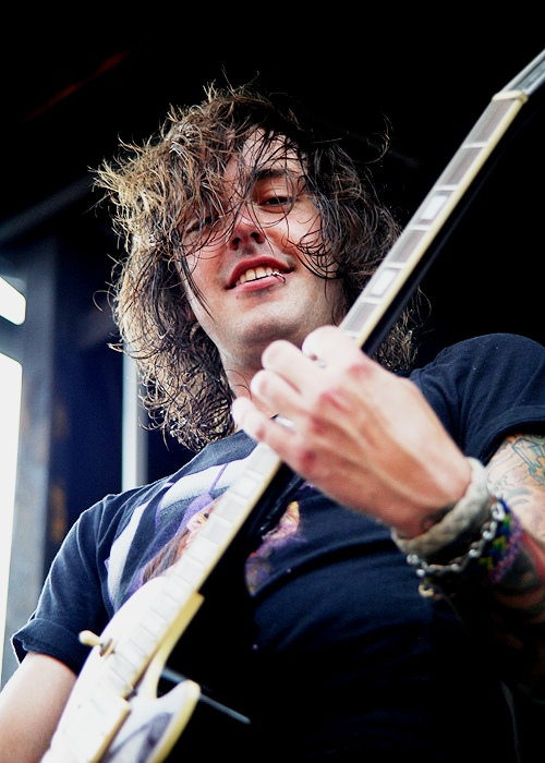 Someone who you will never, ever be better than. No matter how hard you try.